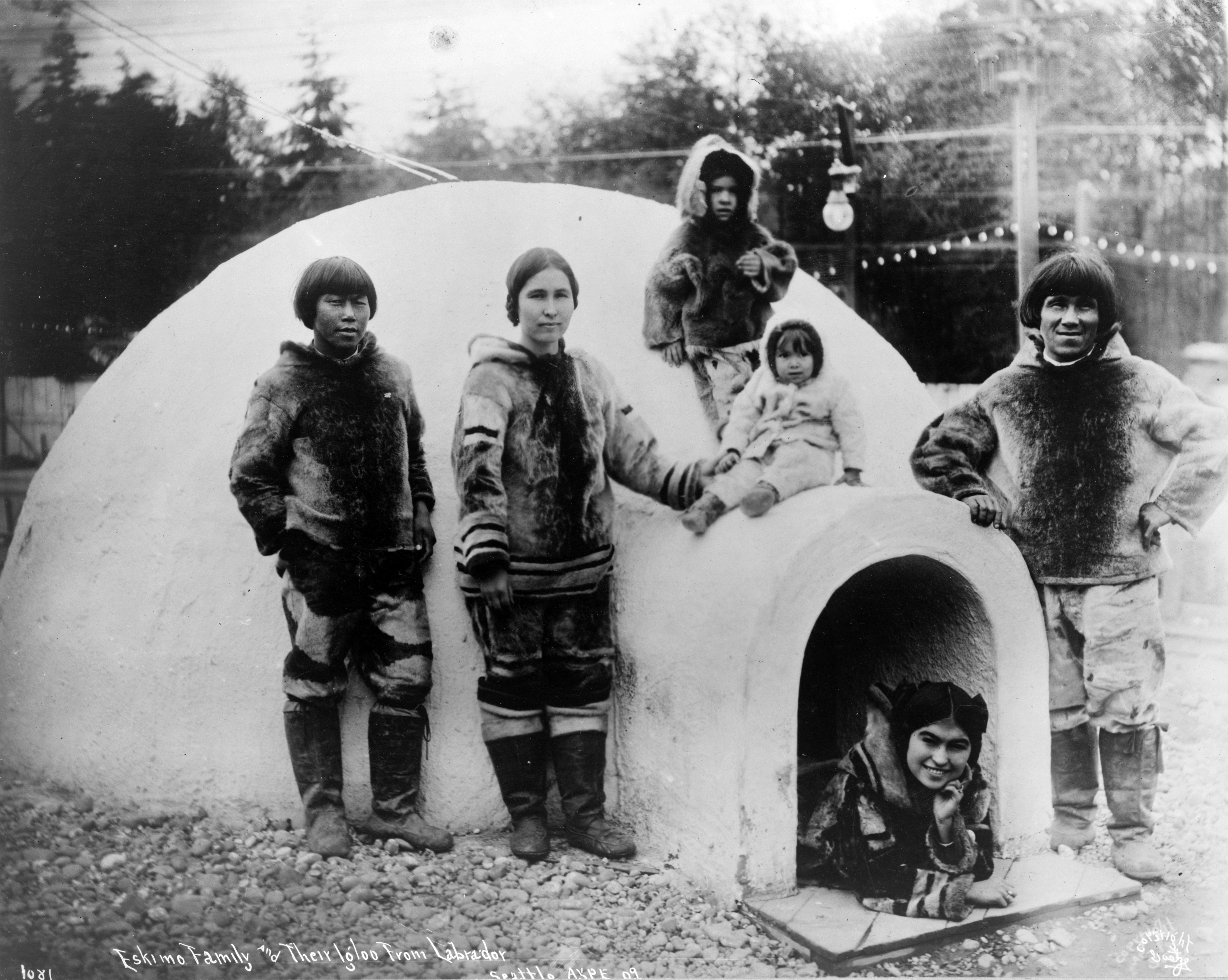 Title: "Eskimo family and their igloo from Labrador, Seattle, A.Y.P.E." Photograph shows two Inuit couples and two children, outside fake igloo at the Alaska-Yukon-Pacific Exposition, Seattle, Washington. NOTE: The woman in this image (second from left) is Esther Eneutseak Smith with her three children. Esther's daughter Florence Smith is sitting atop the entrance to the igloo; behind Florence is Esther's son Norman Smith; and Esther's 16-year-old daughter Columbia Smith is lying in the igloo's entrance. The identities of these subjects are verified in the John C. Smith family's enumeration in the United States Census of 1910 for Seattle. Columbia—Esther's eldest child and the stepdaughter of John C. Smith—was born in the "Eskimo Village" exhibition at the World's Columbian Exposition in Chicago in January 1893. Columbia later became an American film actress, co-starring initially in two productions released by the Selig Polyscope Company in July 1911: The Way of the Eskimo and Lost in the Arctic. Esther also appeared with her daughter in those two films, although in the latter she is credited as "Emutisak". The two older male subjects in this photograph have yet to be identified.